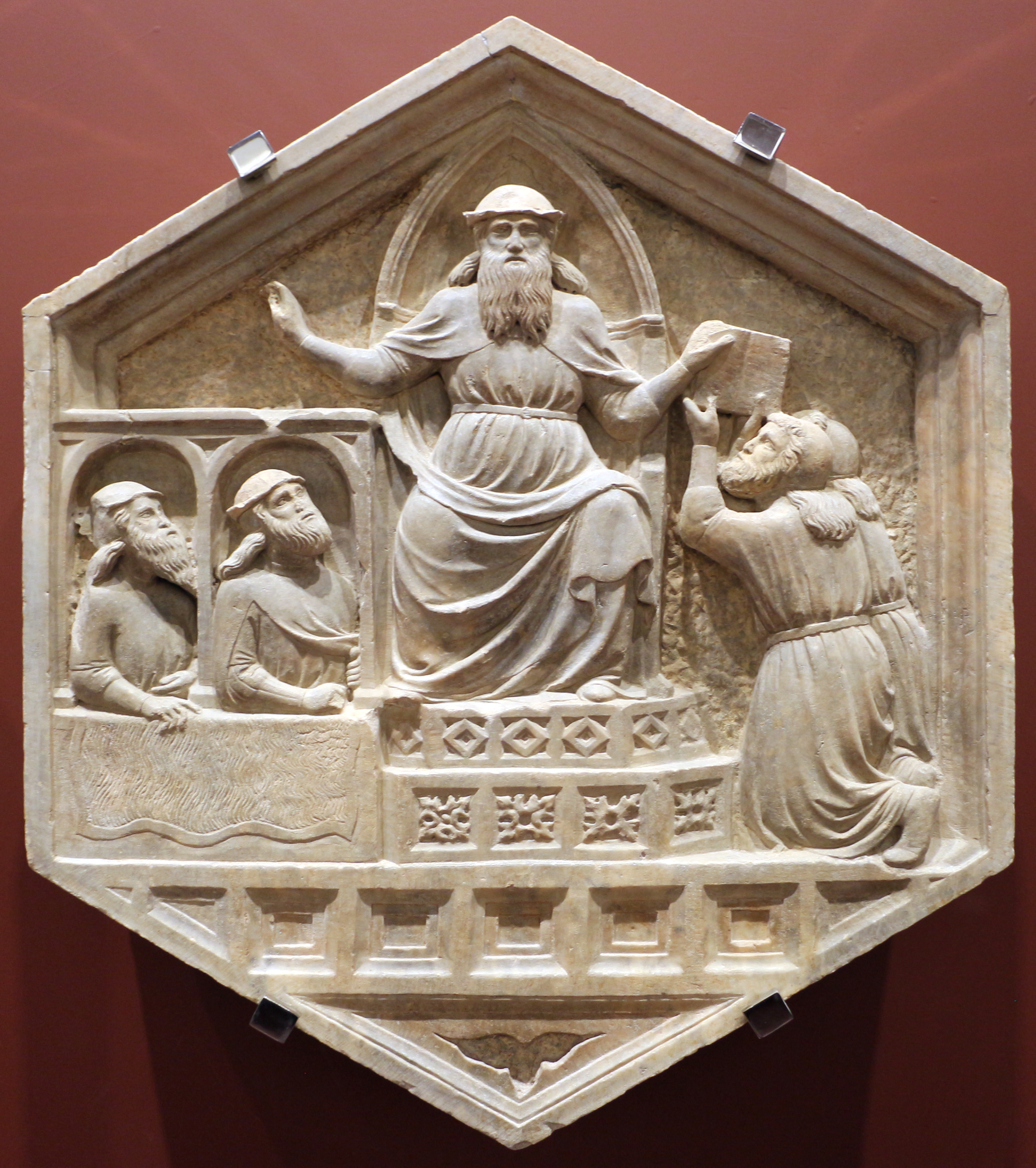 Reliefs of the Giotto's Belltower